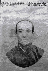 wby